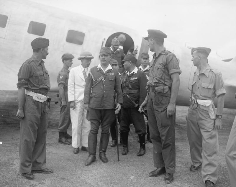 Japanese Peace Emissaries Arrive at Rangoon, Burma, 1945 Lieutenant General Takazo Numata and Rear Admiral Kaigye Chudo arrive at Mingladon airfield, Rangoon, to discuss arrangements for the surrender of the Japanese Army.